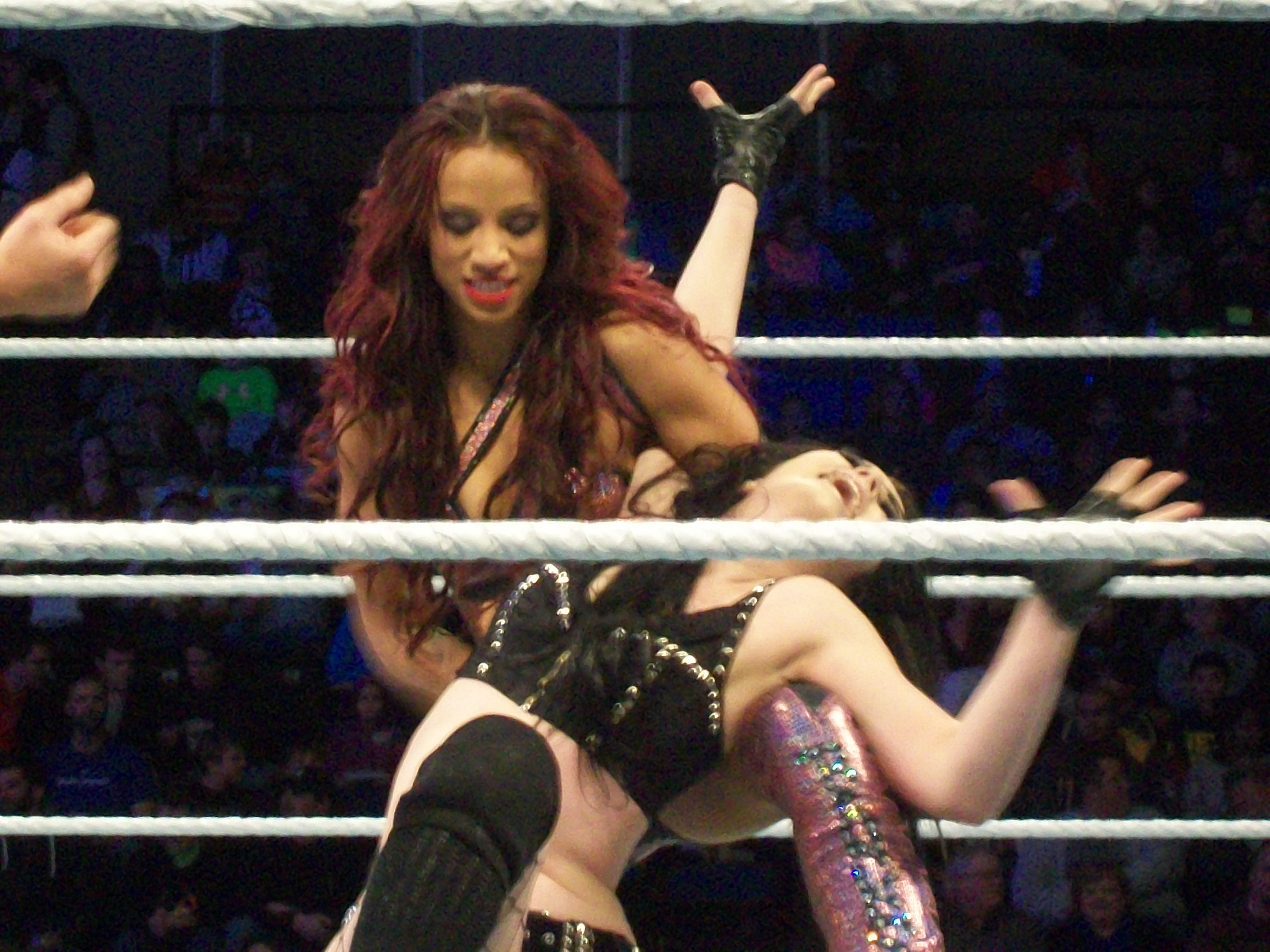 Sasha Banks applying a submission hold on Paige.